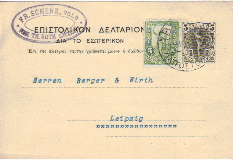 Greek postal stationery card pre-printed with "Flying Mercury" design and additional 5l "Flying Mercury" definitive stamp.